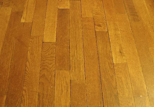 Wood Floor Type of wood floor : Strip flooring